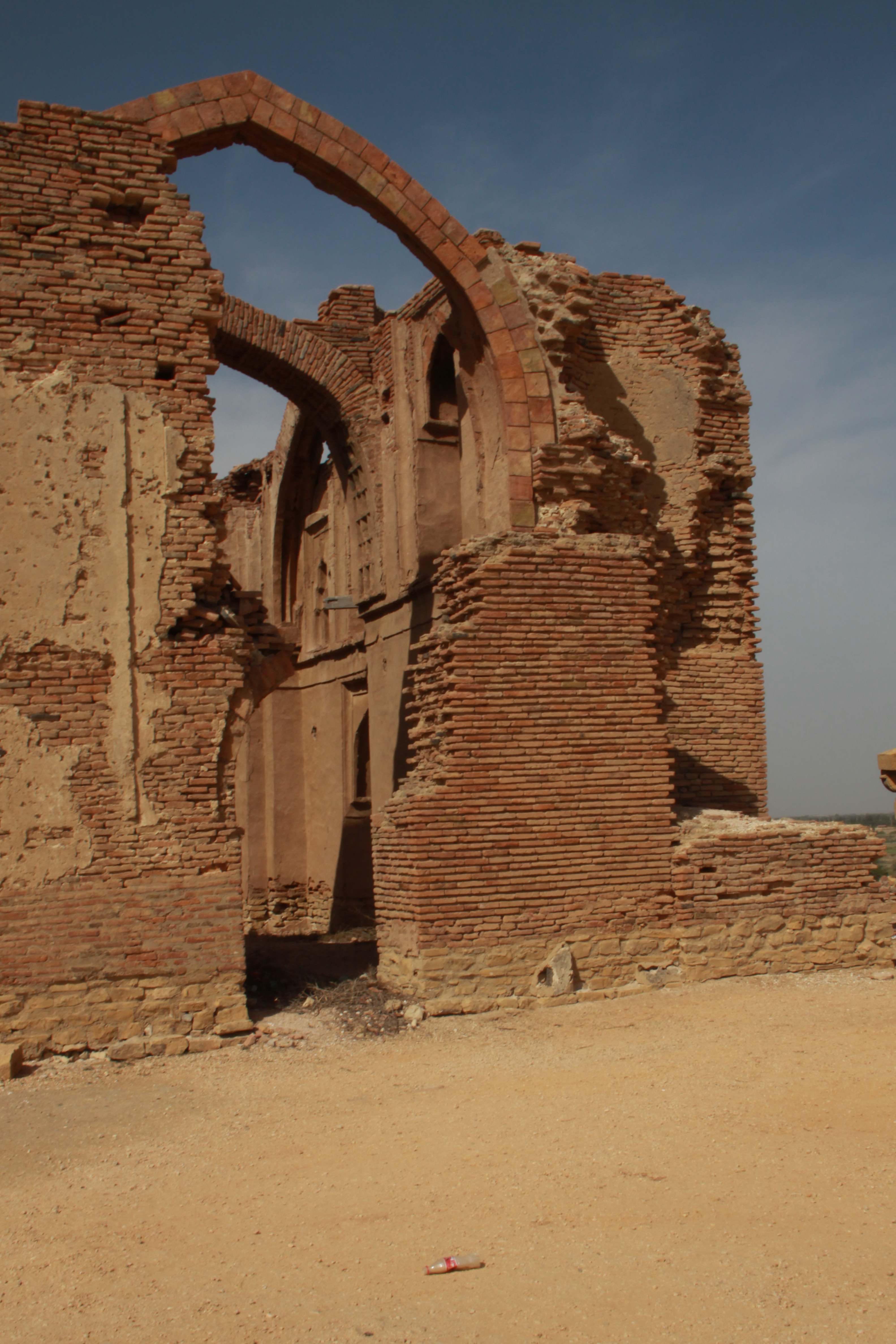 Overview of Makli Hill This is a photo of a monument in Pakistan identified as the SD-91